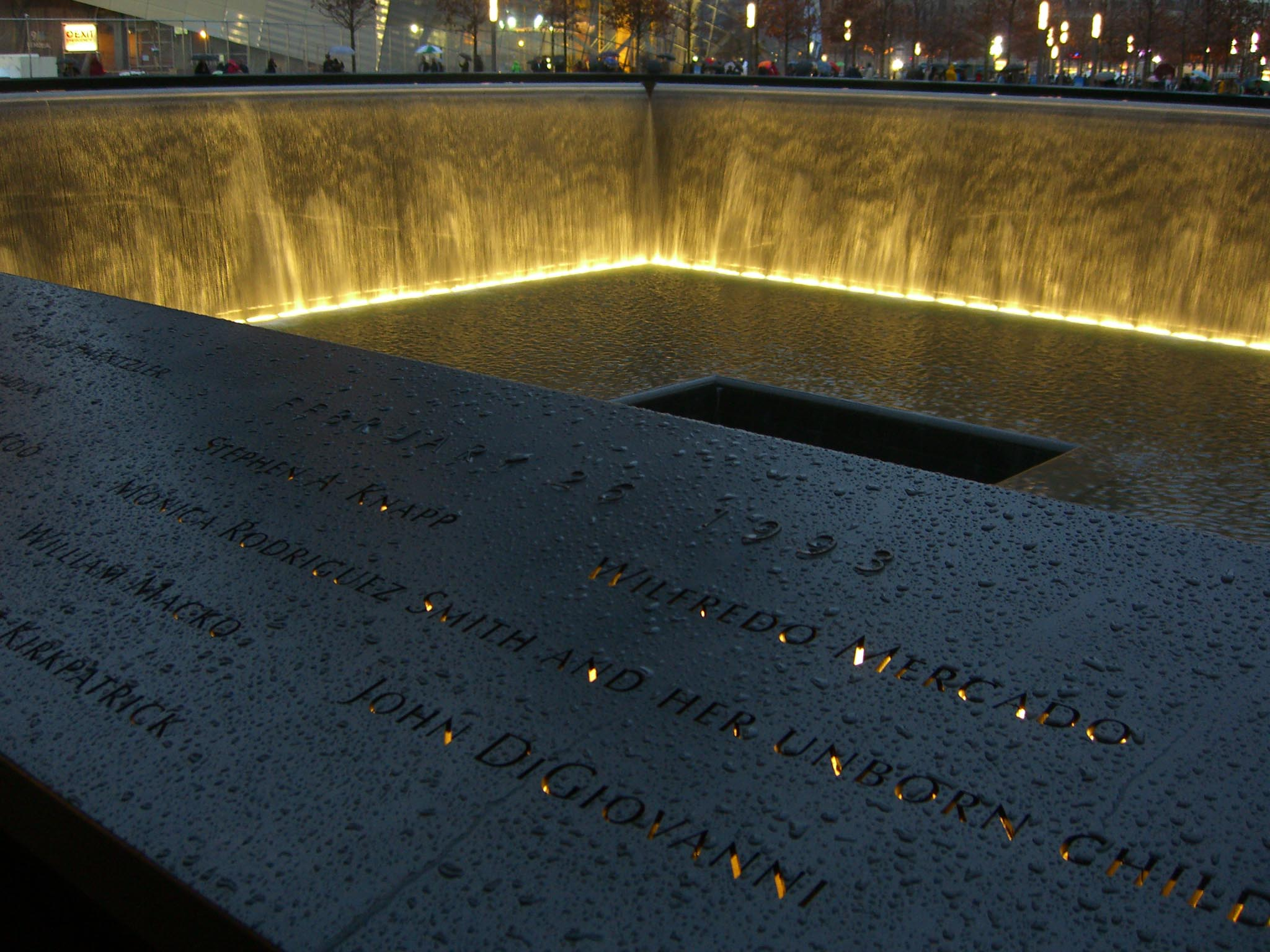 The names of the six victims of the 1993 World Trade Center bombing inscribed on bronze panel N-73 of the North Pool of the National September 11 Memorial in Manhattan, as seen on December 6, 2011. This photo was created by Luigi Novi. If you have any questions, you can contact me by sending me an email or User talk:Nightscream